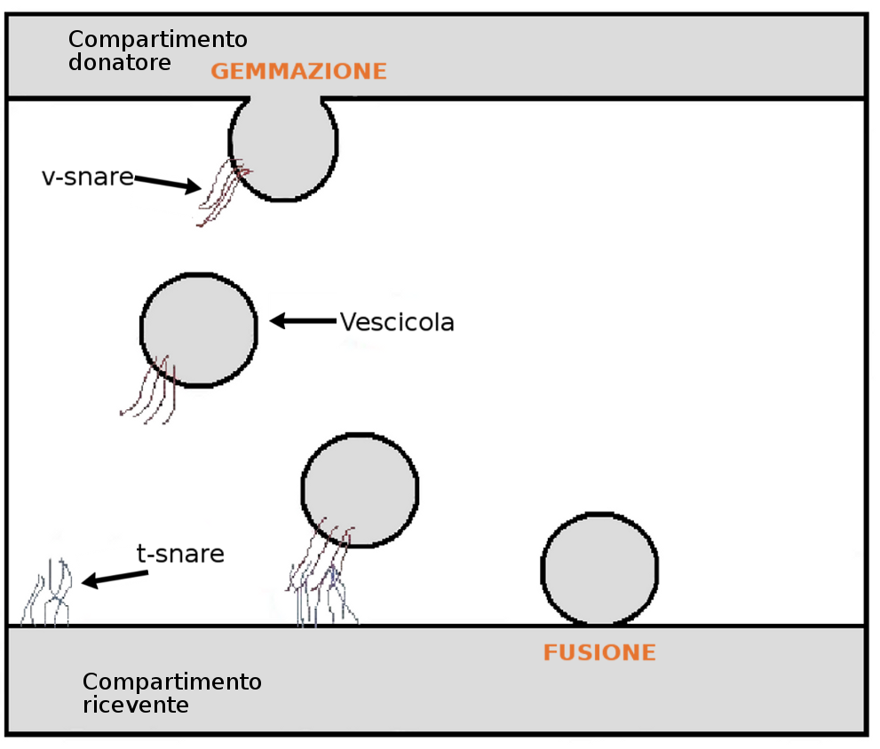 SNARE proteins in vesicle fusion